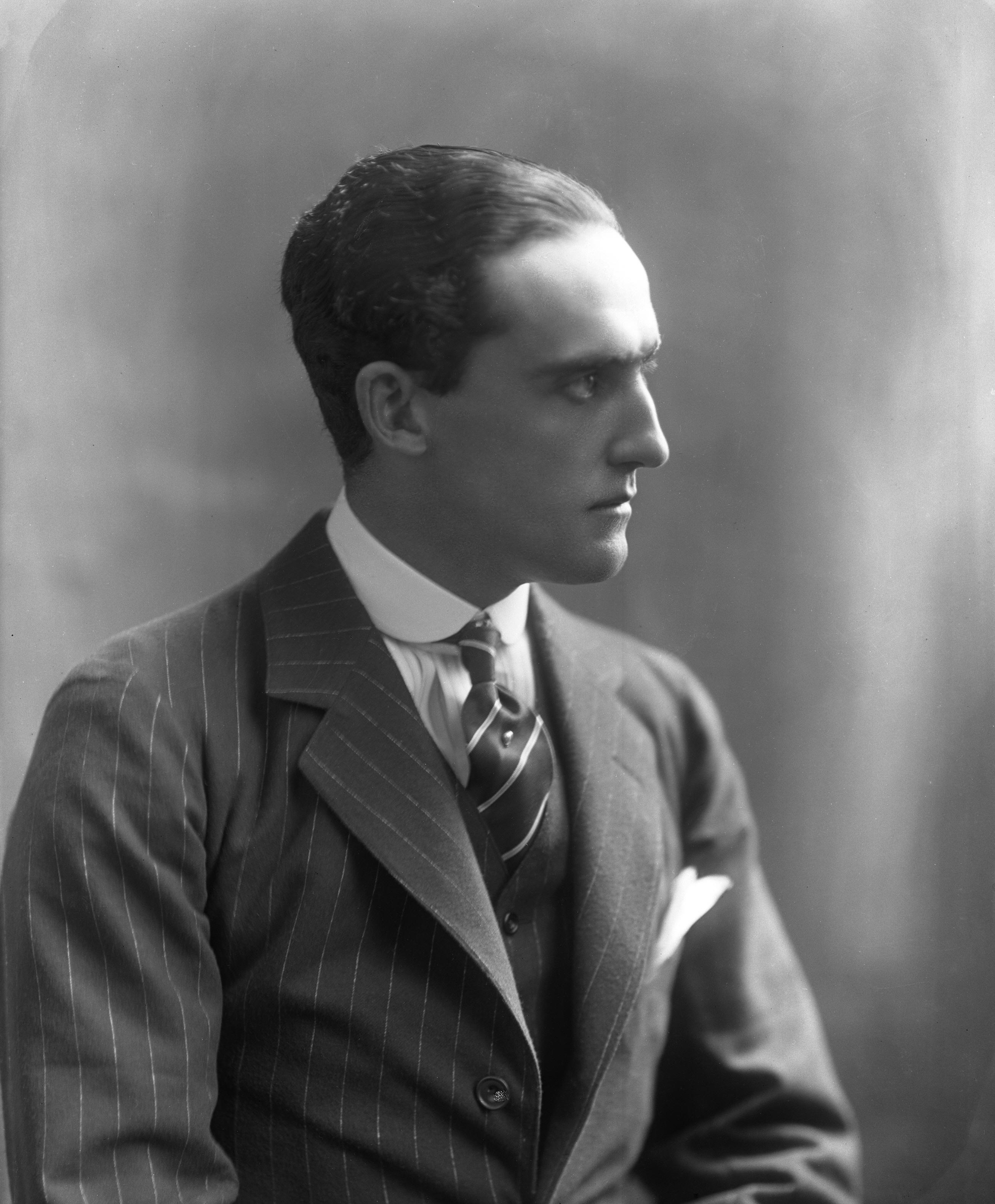 Photograph, Andrew Hamilton Gault, Montreal, QC, 1914, Silver salts on glass - Gelatin dry plate process - 25 x 20 cm